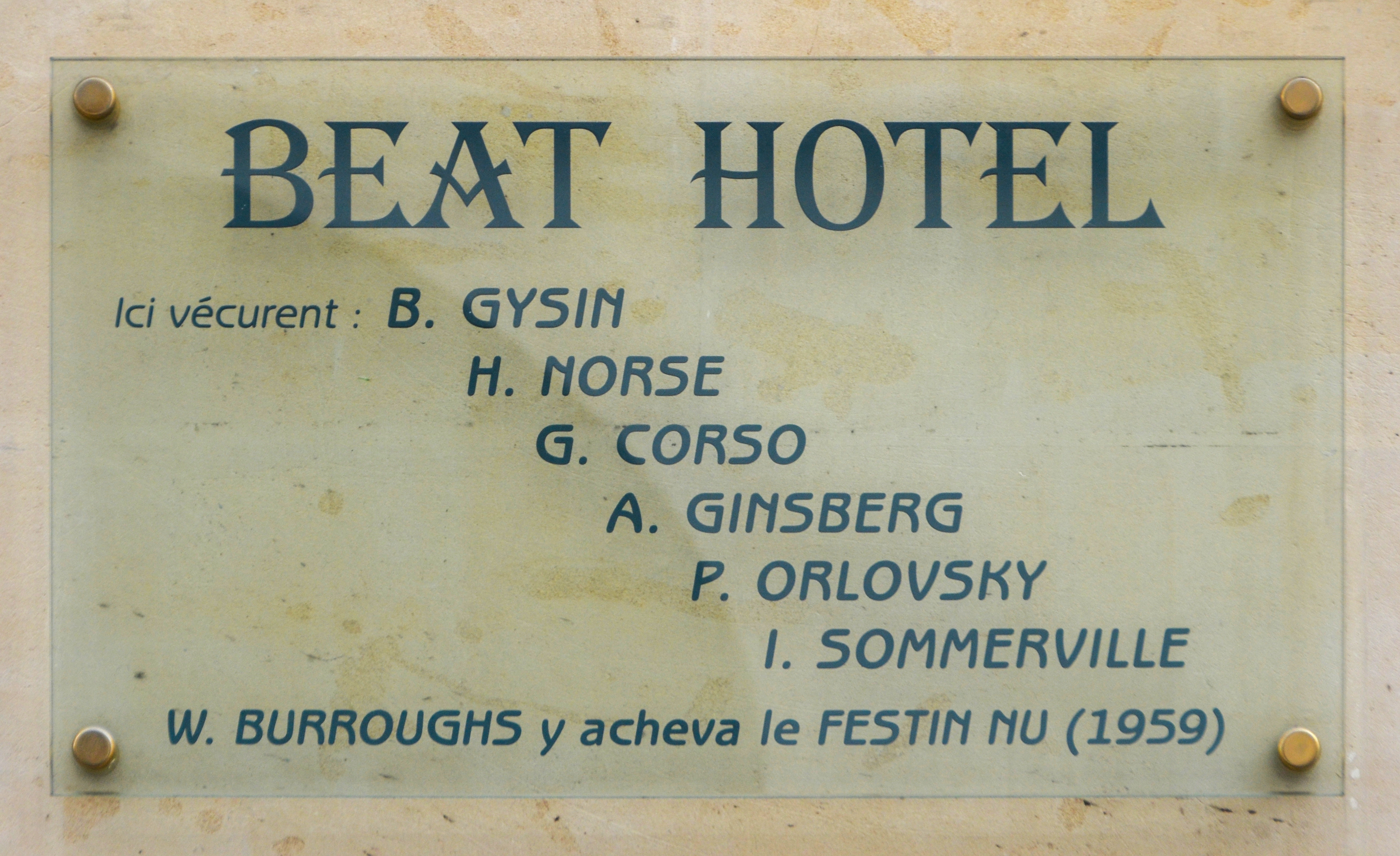 Located at 9, rue Gît-le-Coeur, Paris, 6th arr.